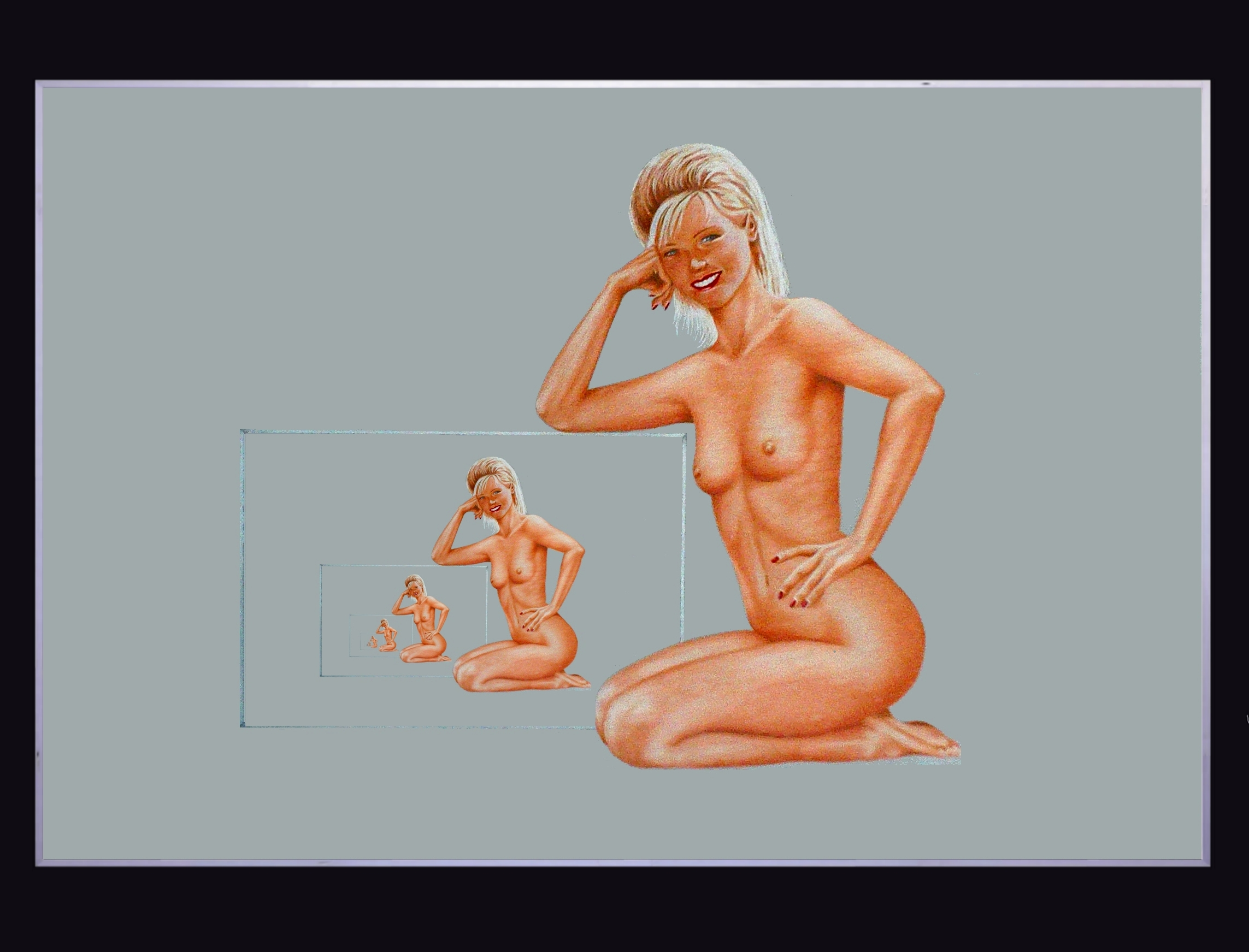 Pin Up color pencil drawing by Jacob Gestman Geradts, Karisma pencils on satinized polypropylene, using the so called "Droste effect".